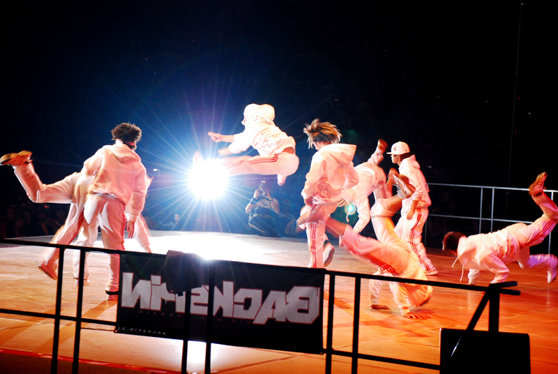 bboy crew at the battle of the year